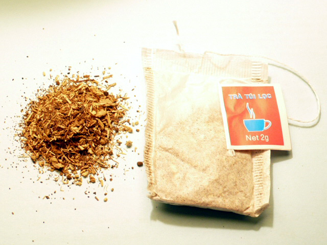 A teabag containing artichoke tea (right) and the contents of an artichoke tea teabag (left). Photo taken in Kent, Ohio with a Panasonic Lumix digital camera (model DMC-LS75). Artichoke teabag produced in Dalat, Vietnam. The tea, called trà hoa atisô in Vietnamese, is made from the dried flowers of the artichoke.